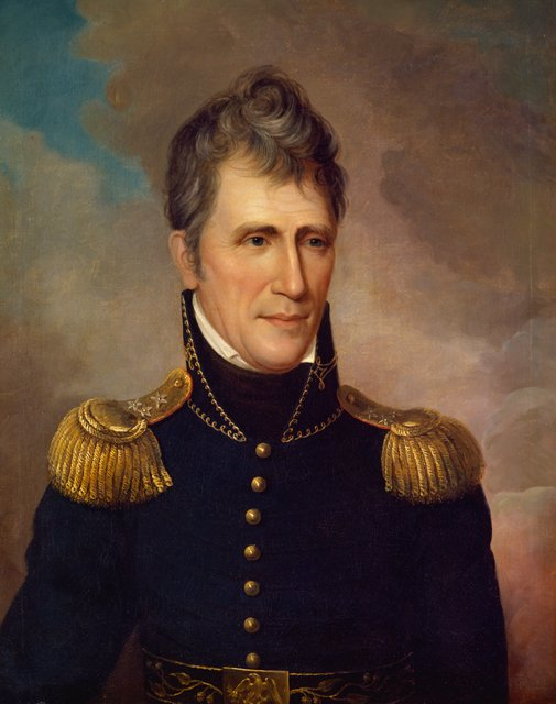 Portrait of Andrew Jackson by Charles Willson Peale, 1819. Oil on canvas. Masonic Library and Museum of Pennsylvania, Philadelphia